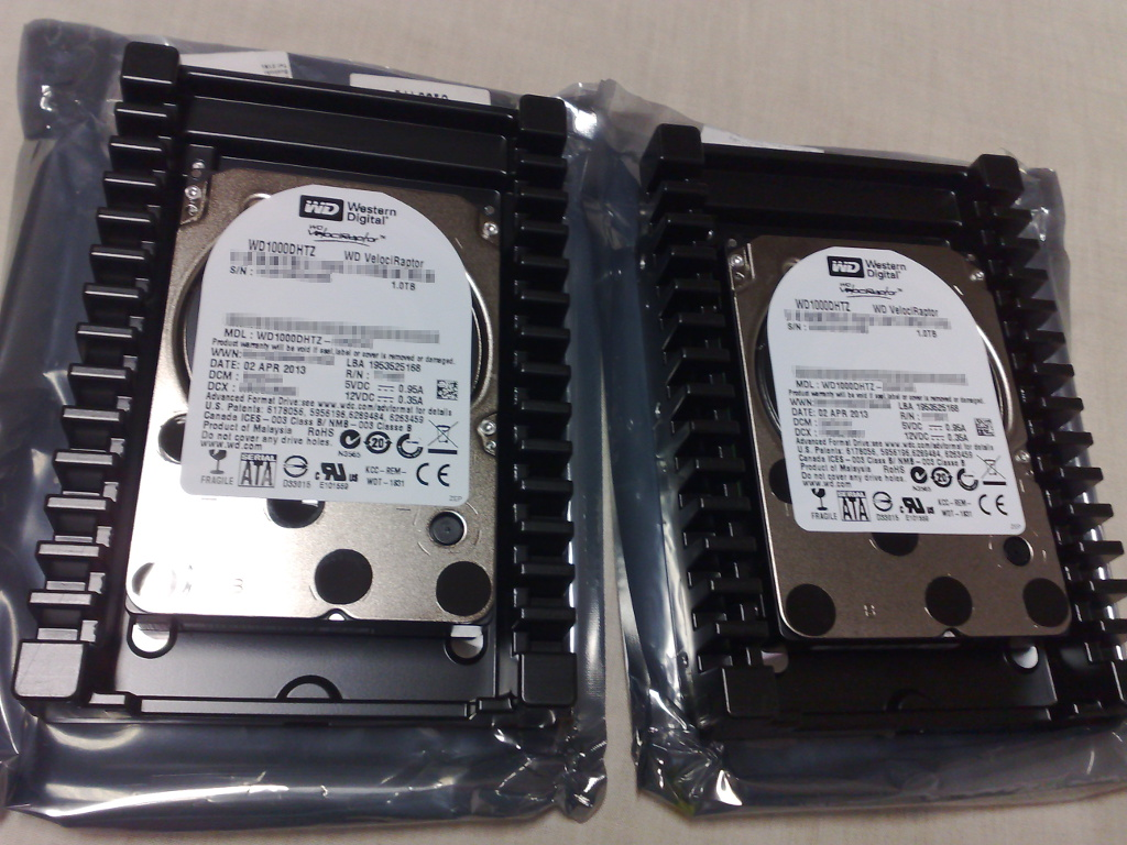 Two Western Digital third-generation (VR333M) VelociRaptor 1 TB SATA 3.0 (6 Gbit/s) 10,000 rpm 2.5-inch enterprise-grade hard disk drives, factory-mounted in 3.5-inch IcePack frames (p/n: WD1000DHTZ)